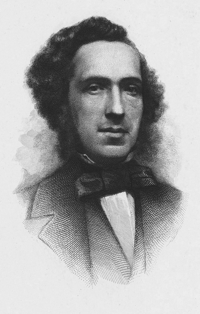 Picture of the Dutch poet Petrus Augustus de Génestet.